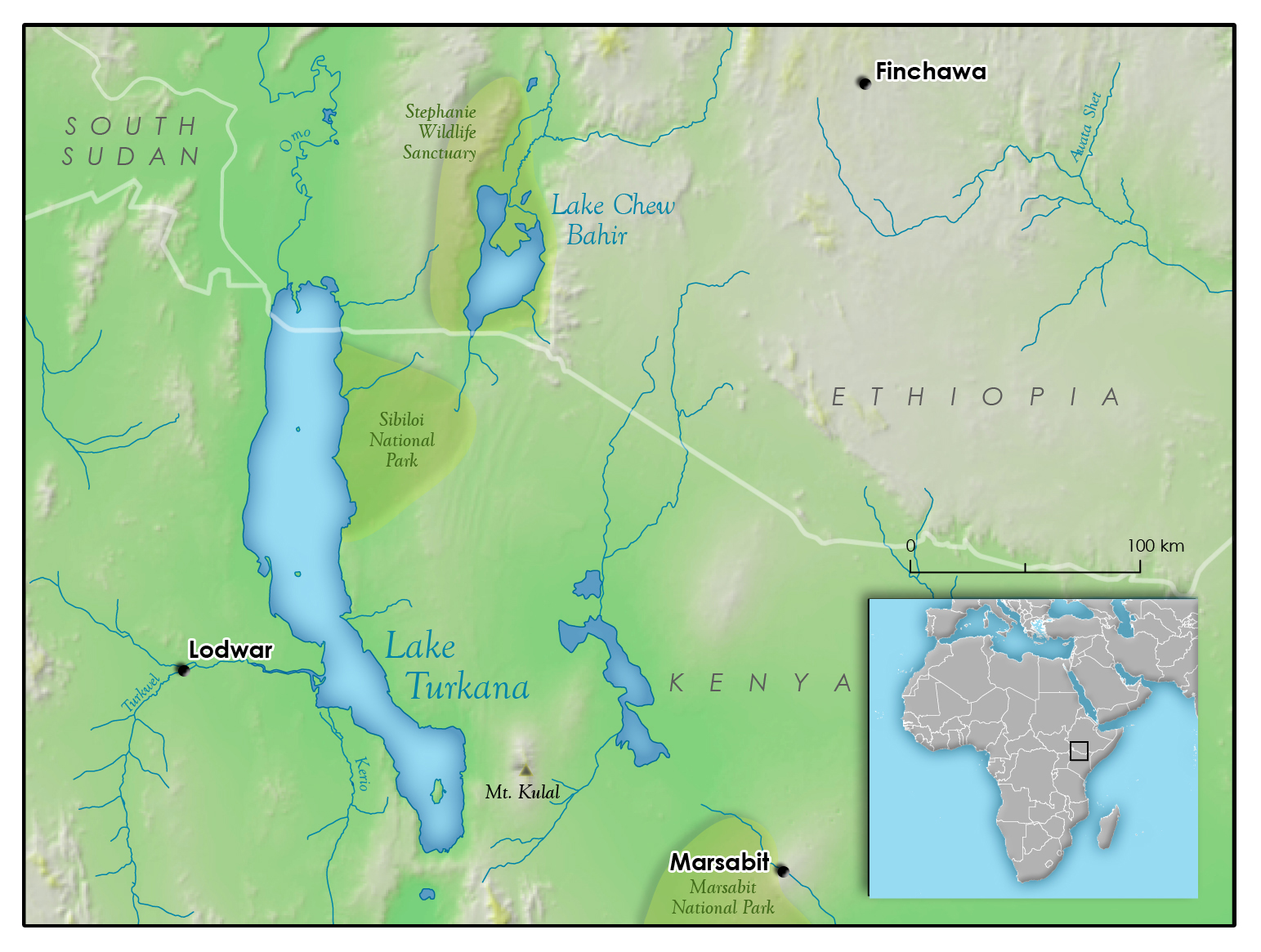 Lake Turkana and its vicinity